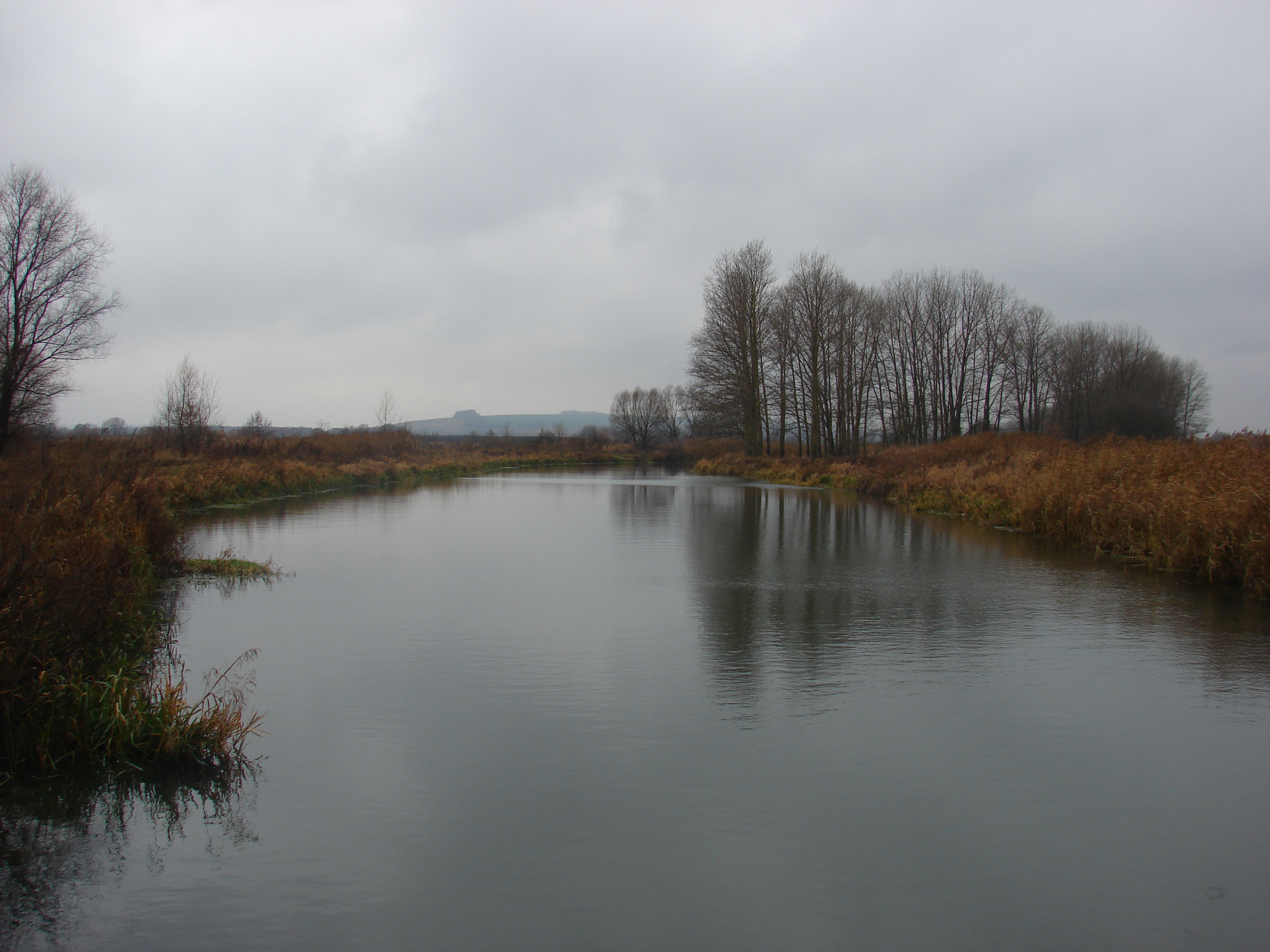 near the sources of the Tikhaya Sosna River